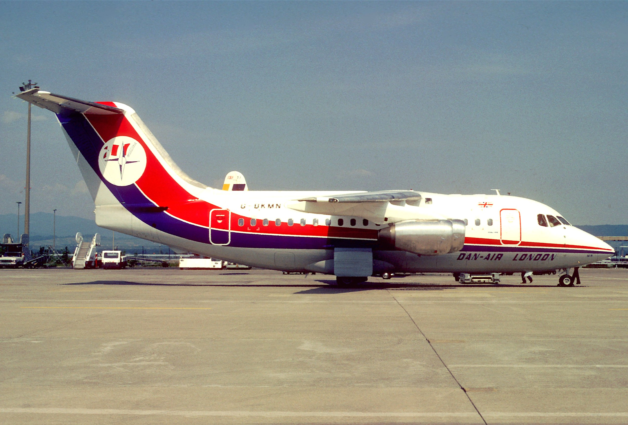 Dan-Air London BAe-146-100; G-BKMN, June 1988